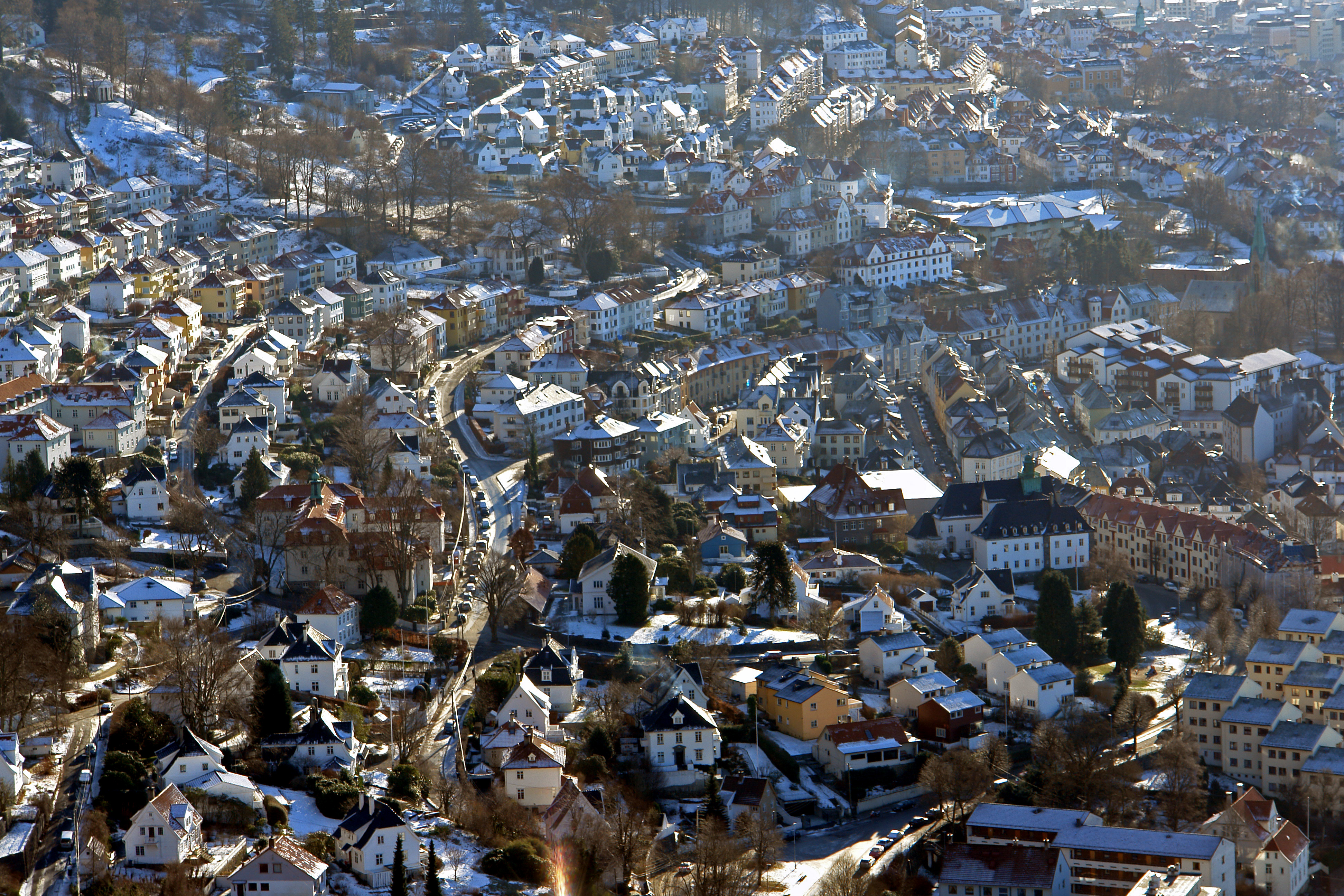 The neighbourhood Sandviken in Bergen as seem from the Sandviken battery in Munkebotn.